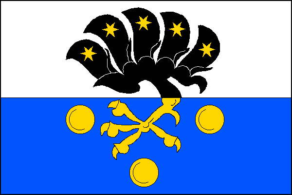 Flag of Dražíč municipality, České Budějovice District (formerly Písek District), Czech Republic.